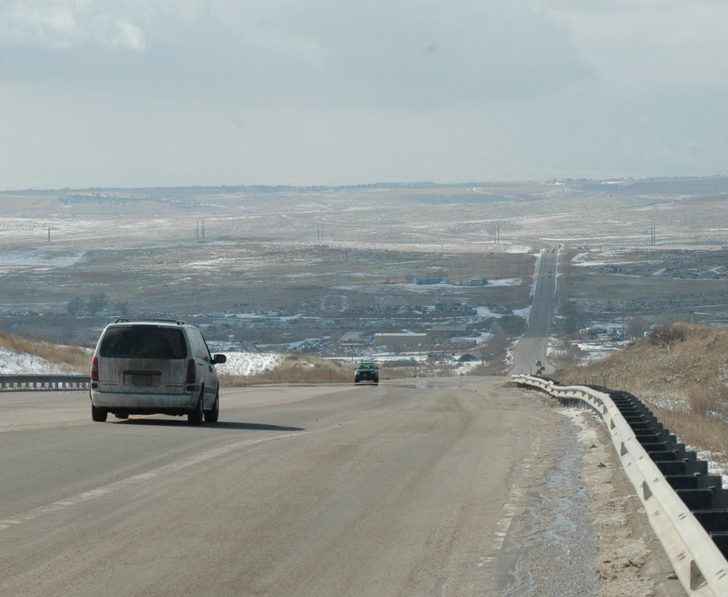 Colorado State Highway 94 looking west toward the city from the top of a hill near Curtis Road. The highway, the lone major access road to and from Schriever Air Force Base, could possibly be reclassified as a non-rural arterial by the Colorado Department of Transportaition.